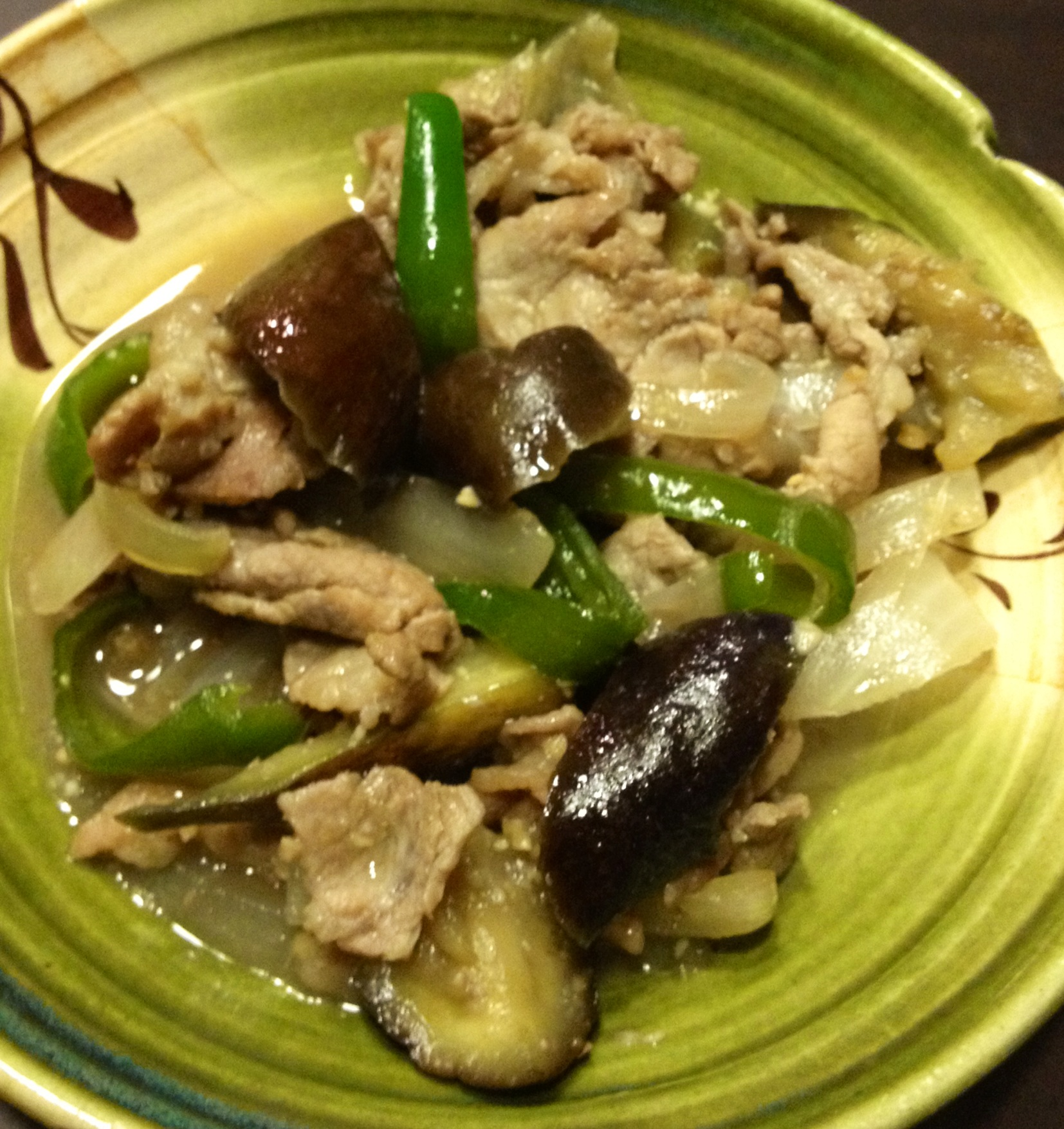 Japanese home cooking with eggplant.